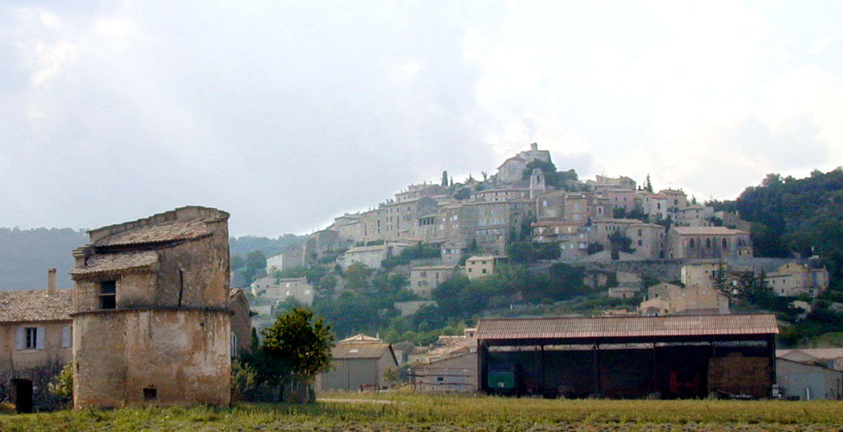 view on the village of Simiane-la-Rotonde, France